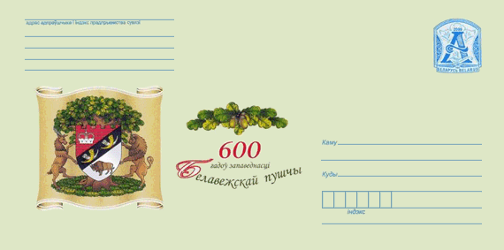 Postal stationery. Pre-Stamped Envelope of the Belarus. Stamp - Letter "A" (inland rate), blue. Illustration: 600th Anniversary of Belovezhskaya Puscha reserve status - on Belarusian language, Coat of arms. Size - 220*110 mm. Order number - 8893-09. Print quantity - 30000.